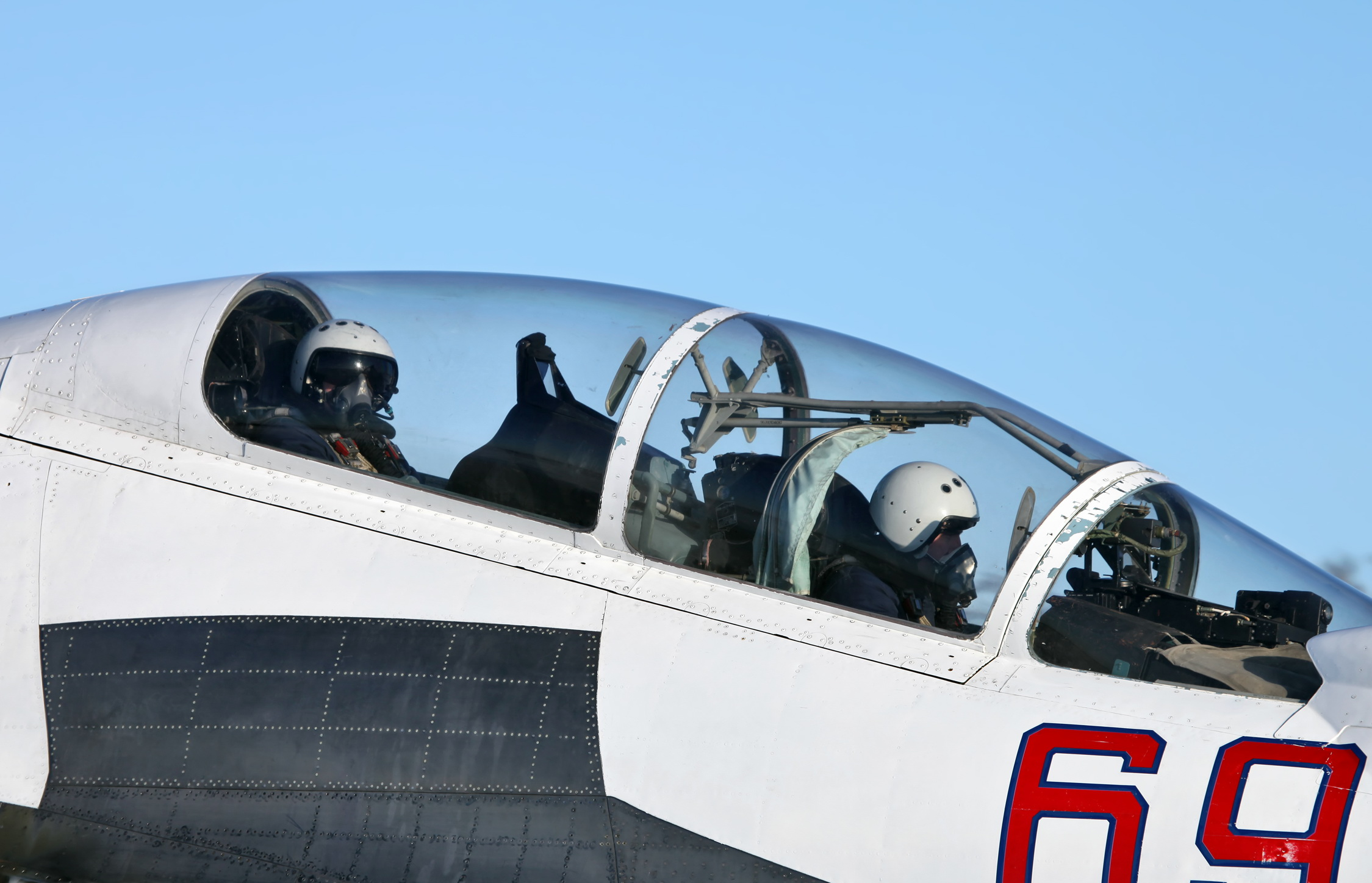 Su-30 RF-92222, 69 Red